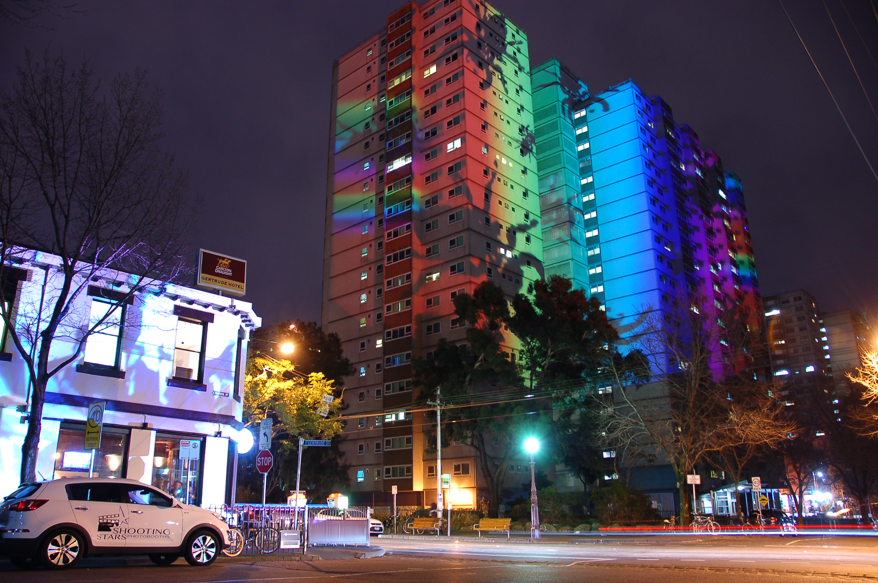 Gertrude Street Projection Festival 2013